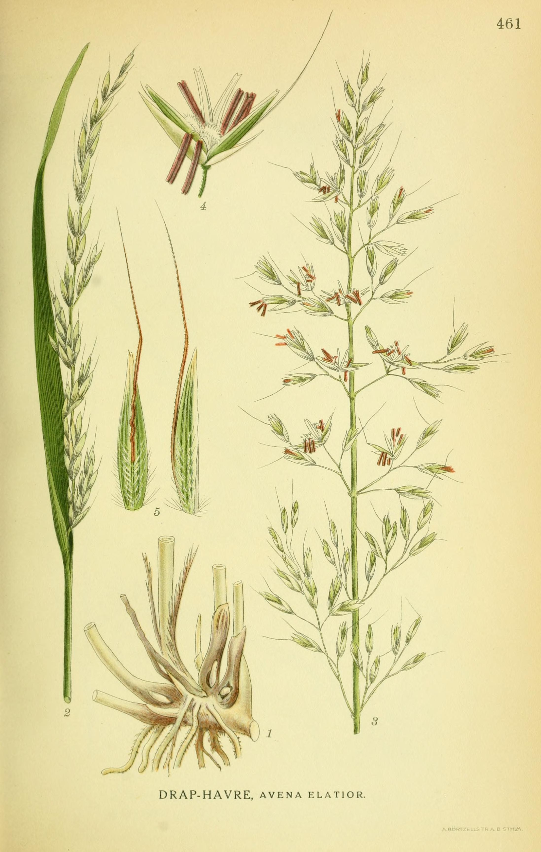 Title: Billeder af nordens flora Year: 1917 (1910s) Authors: Mentz, August, 1867-1944; Ostenfeld, C. H. (Carl Hansen), 1873-1931 Subjects: Plants; Plants; Plants Publisher: København, G. E. C. Gad's forlag Text Appearing Before Image: ' Text Appearing After Image: 461 DRAP-HAVRE, avena elatior.